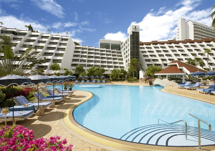 Royal Wing Suites & Spa